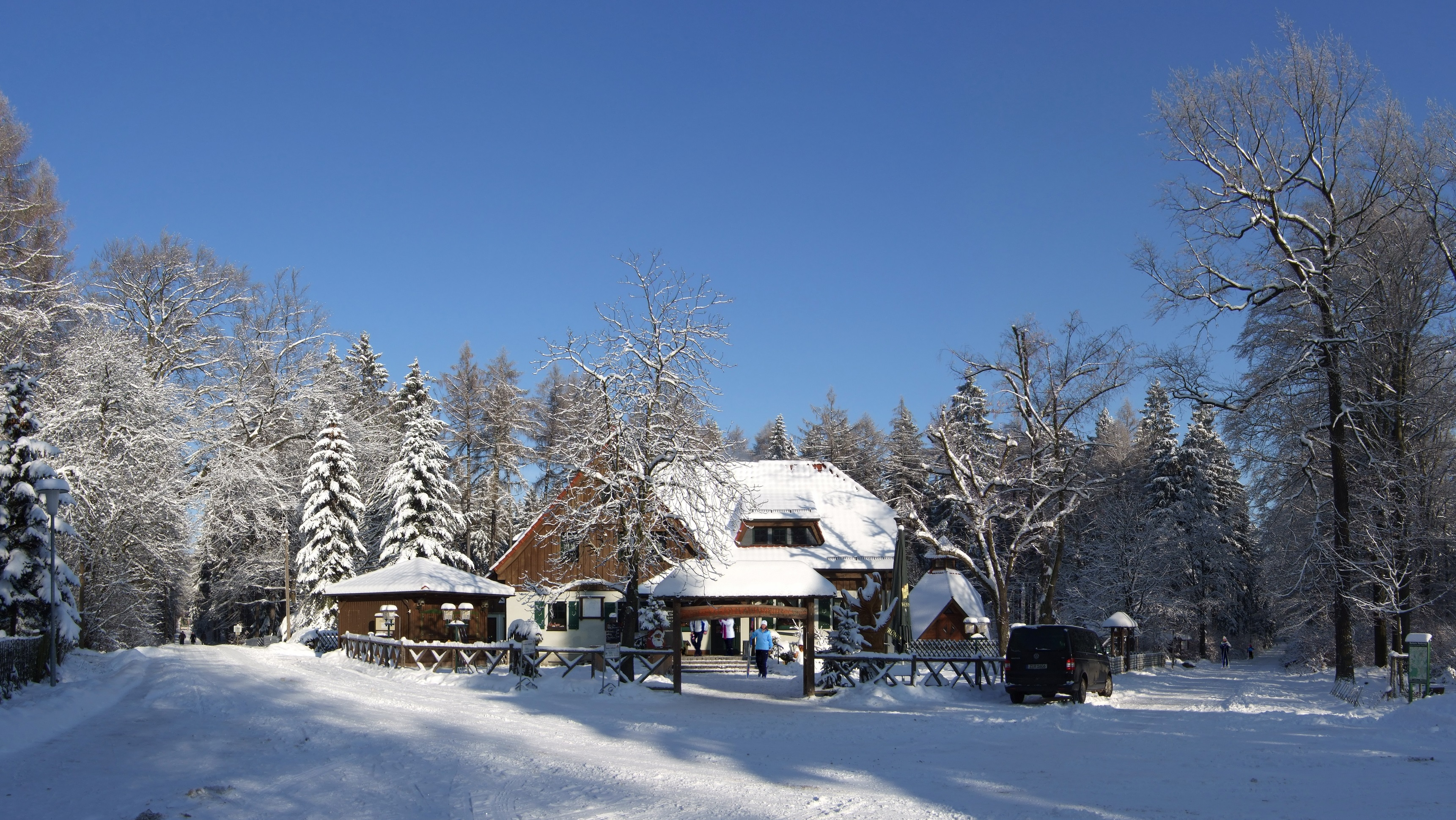 The picture shows the restaurant Weidmannsruh in the forest Werdauer Wald.